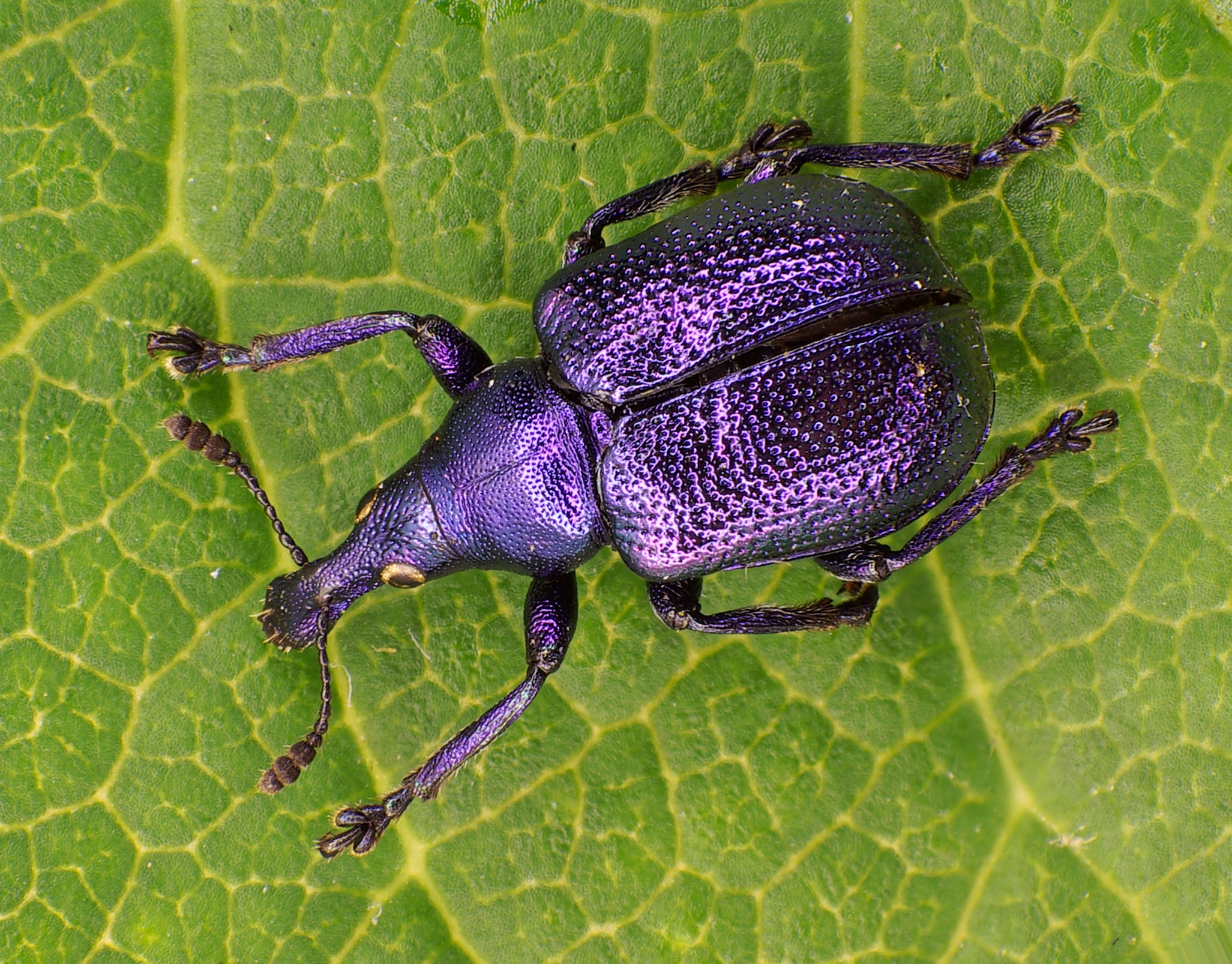 Byctiscus betulae female from Hungary near Kállósemjén, caught at 1994-05-07, photo taken at 2012-08-10